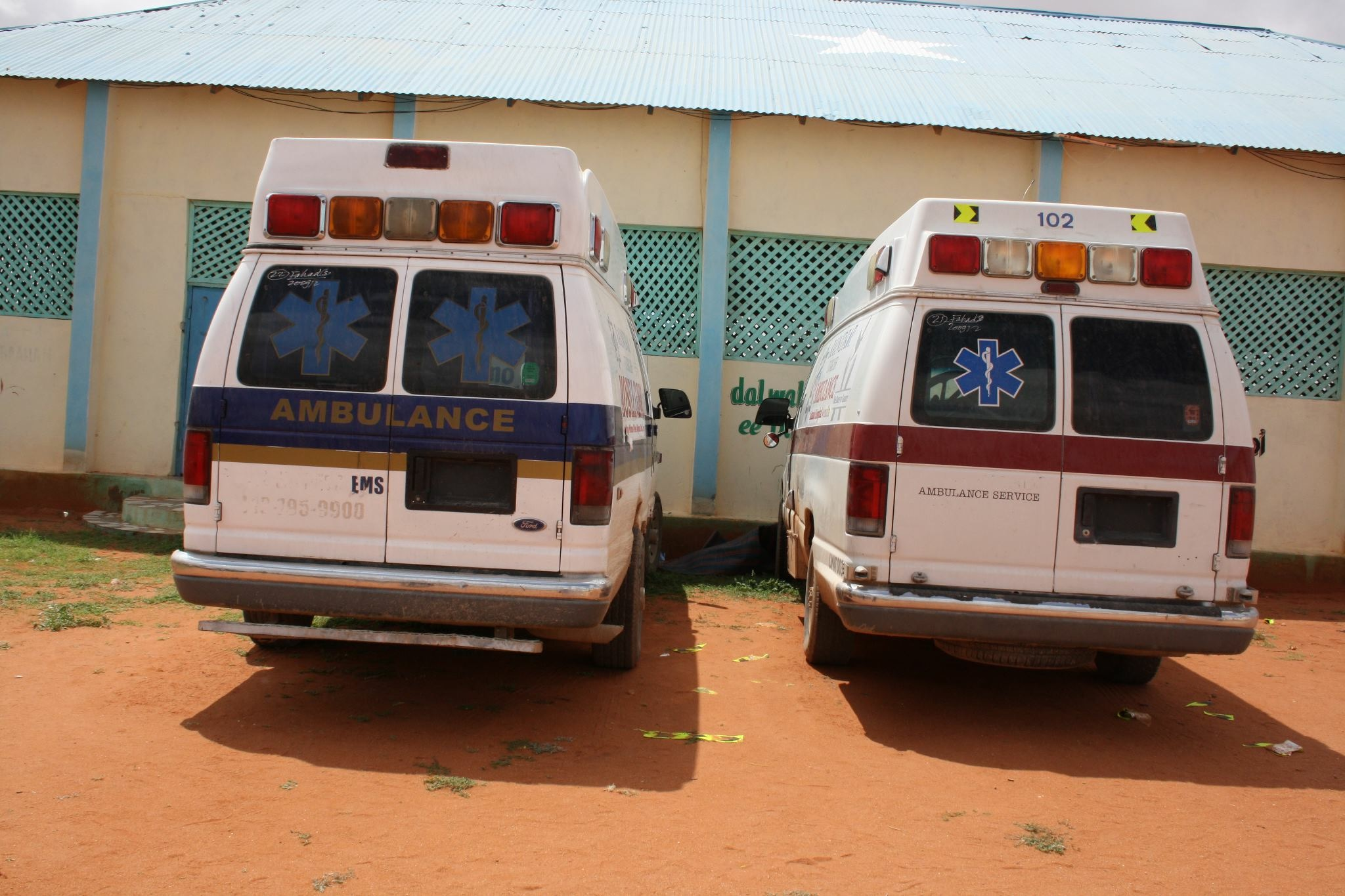 Adado General Hospital